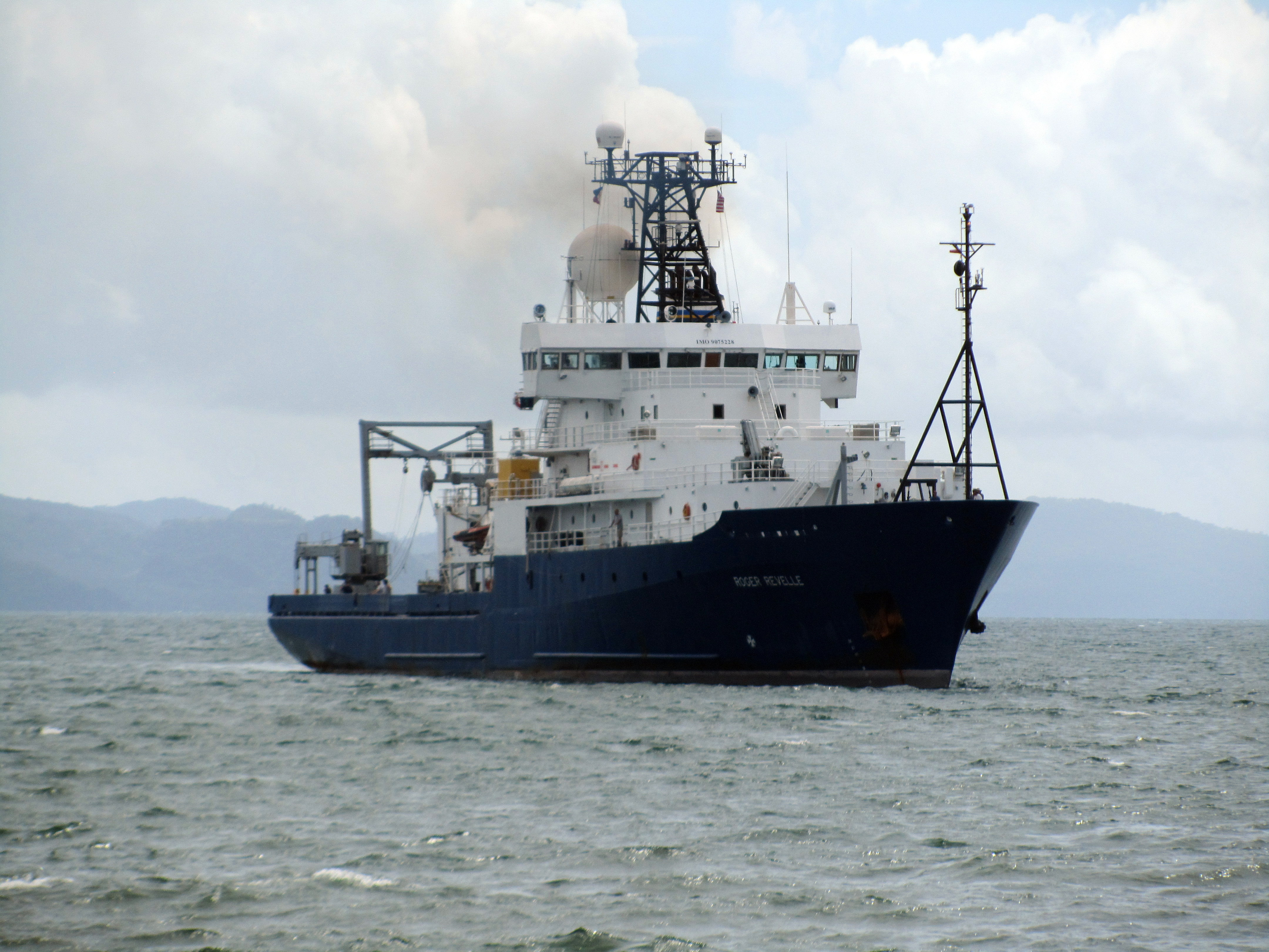 R/V Roger Revelle, in Legazpi, Philippines.